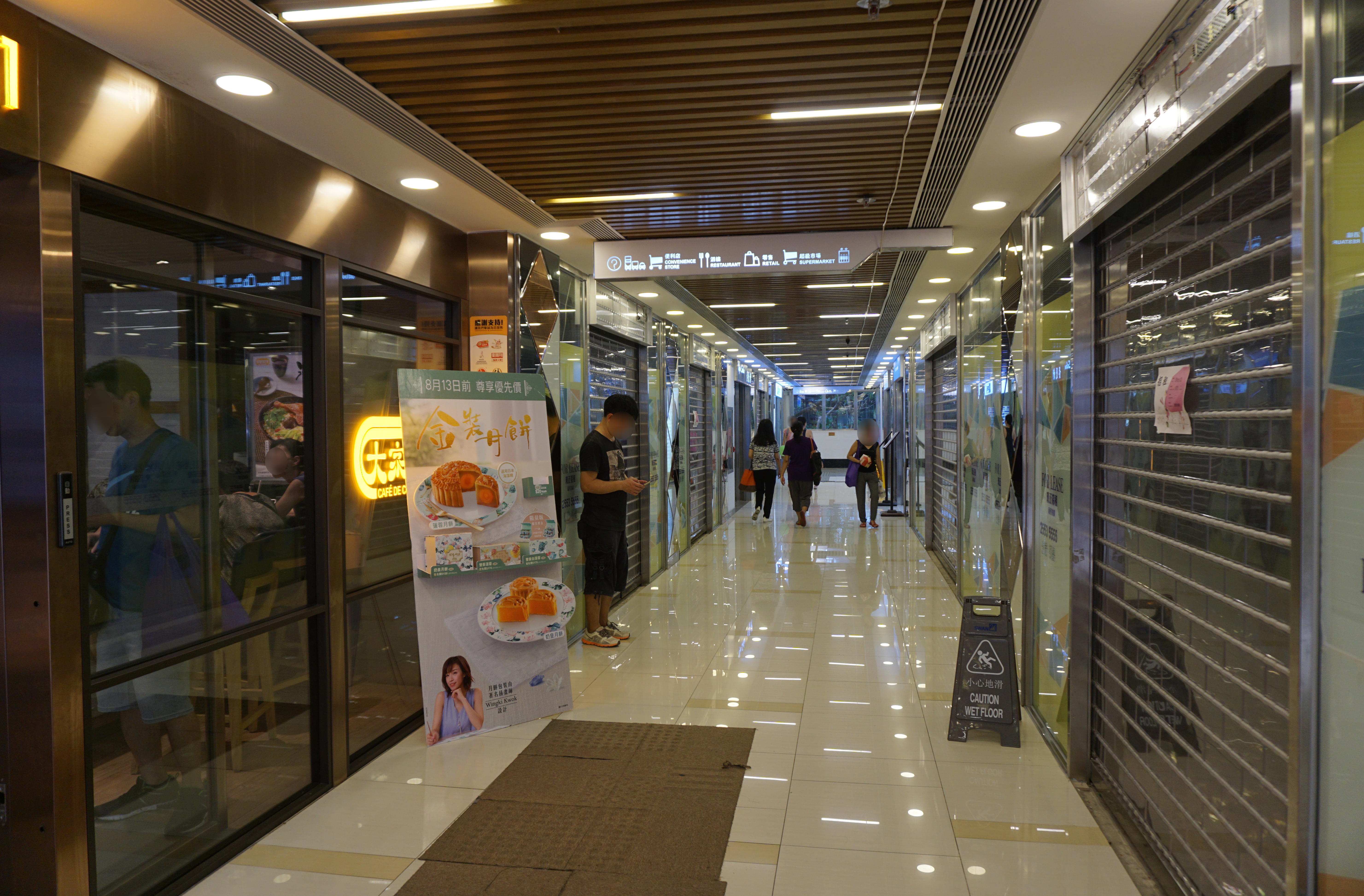 Noble Square in Pok Fu Lam, Hong Kong.